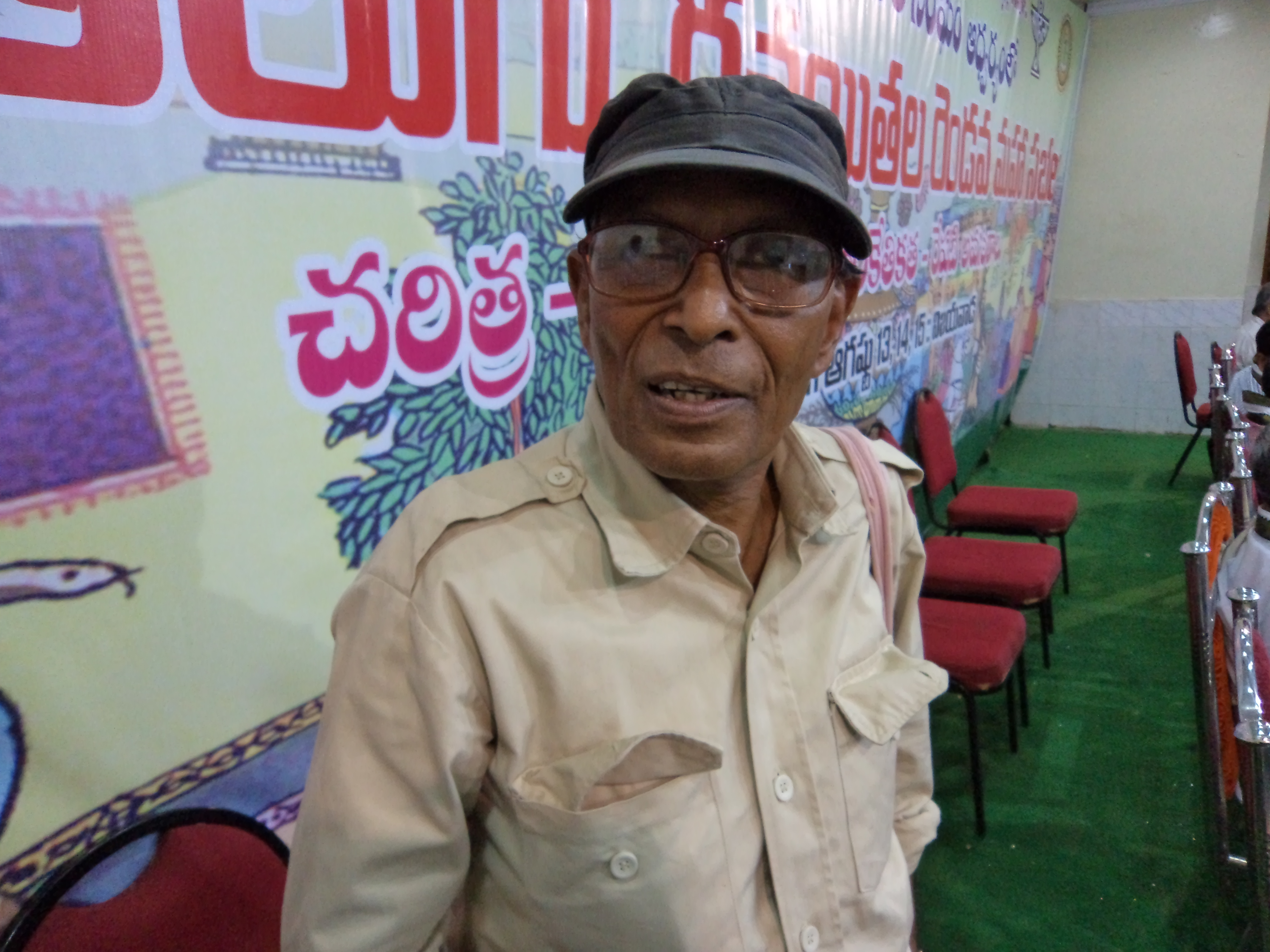 Vanga Pandu Prasad